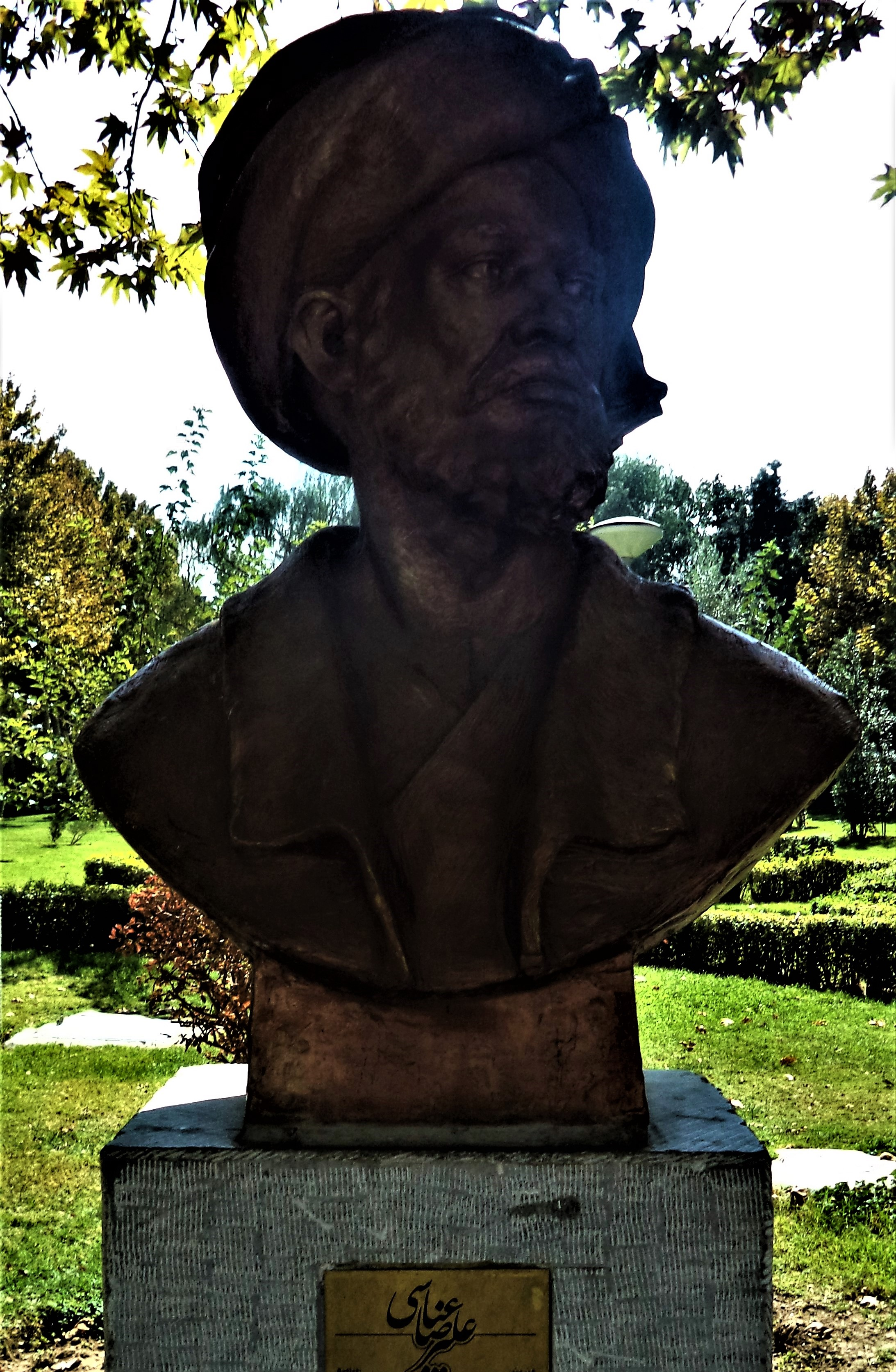 Head Statue of Ali Reza Abbassi - (? - 1629 /? -1038 A.H.)